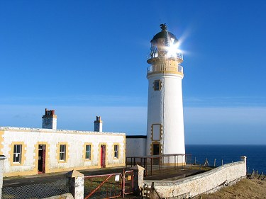 my own photo